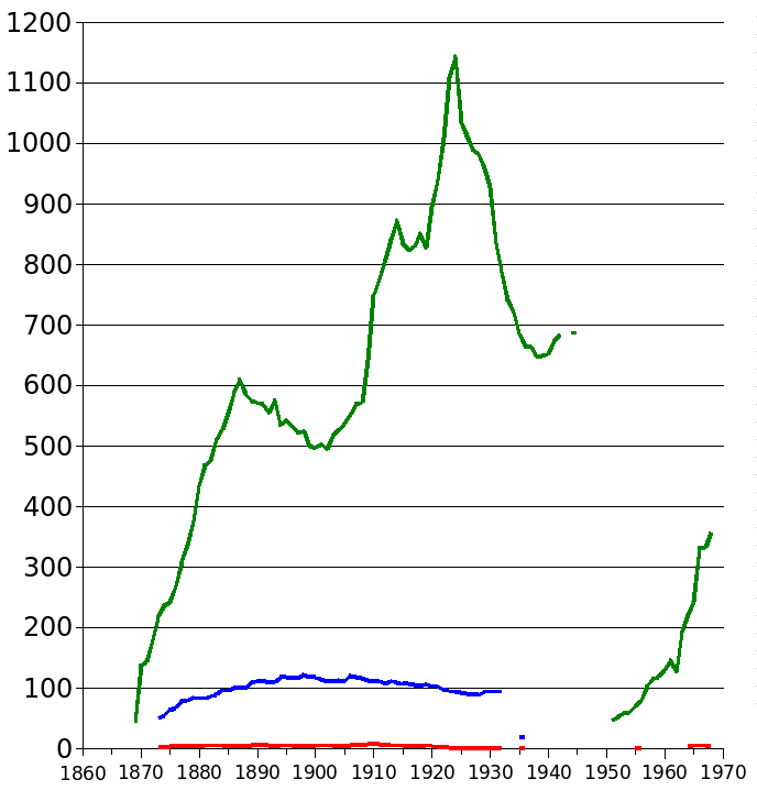 number of members of the Berliner Gesellschaft für Anthropologie, Ethnologie und Urgeschichte